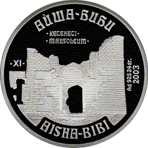 Coin of Kazakhstan